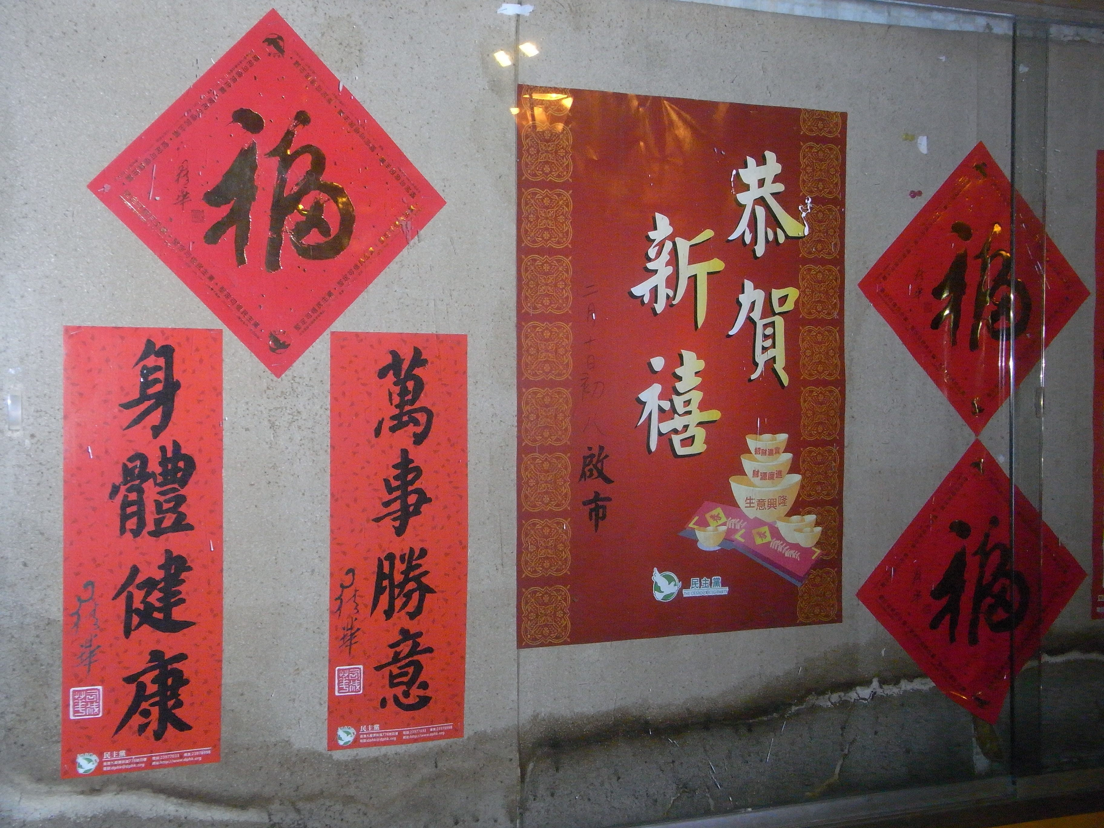 香港民主黨zh:司徒華簽名揮春(印刷版)